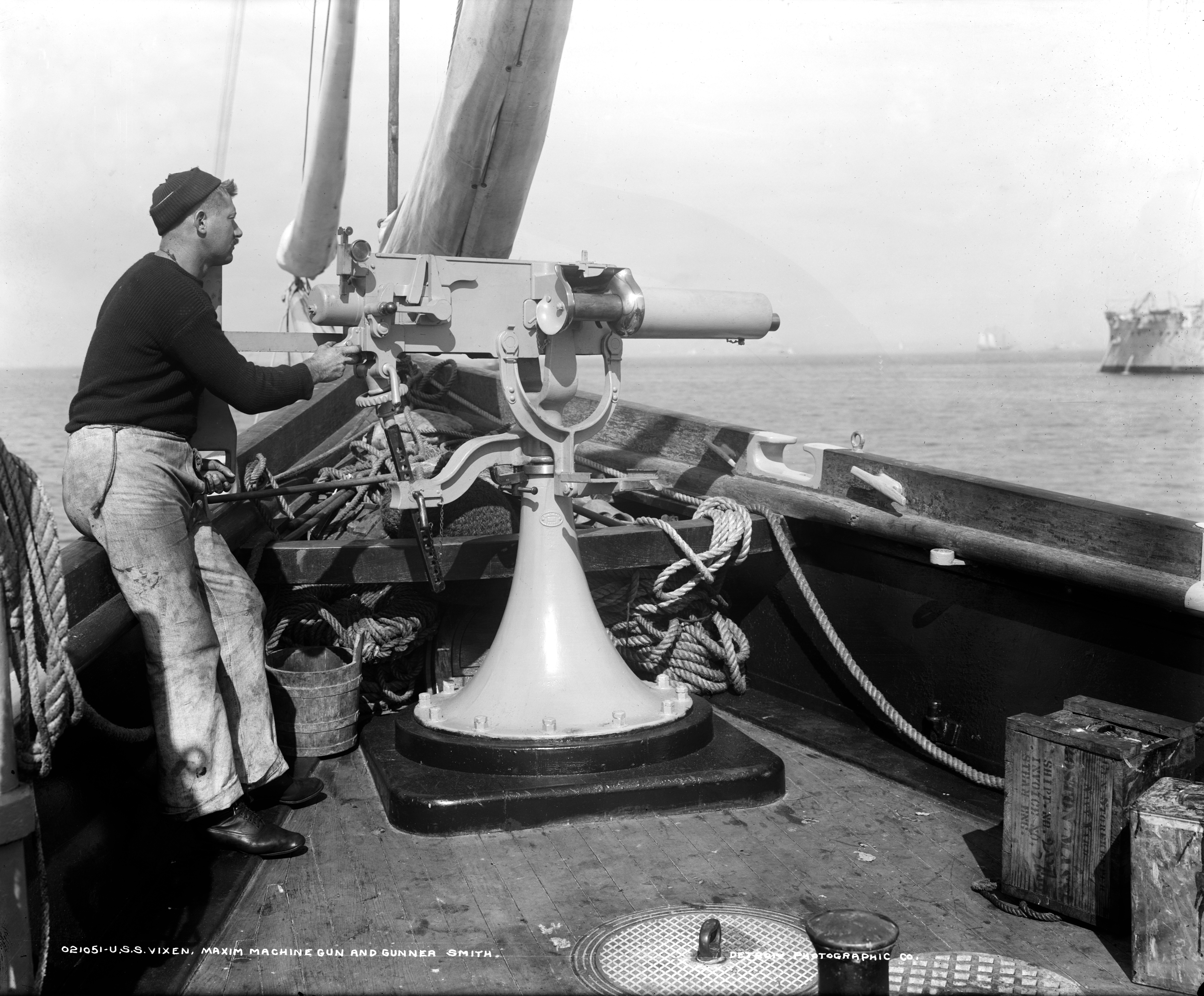 U.S.S. Vixen, Maxim machine gun and gunner Smith. The gun appears to be a Maxim-Nordenfelt 37-mm 1-pounder autocannon, known to the British as a "pom-pom".